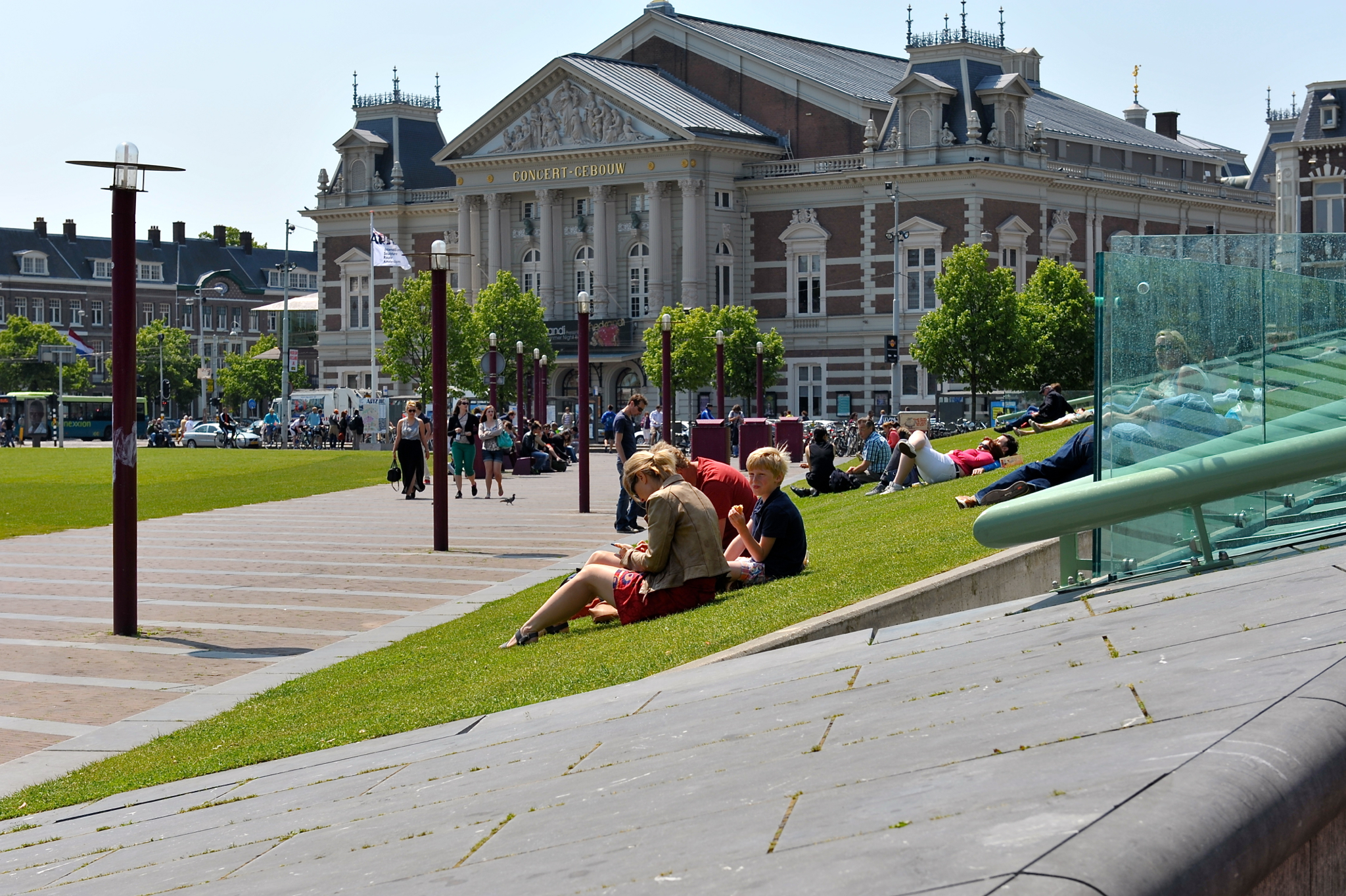 Amsterdam Concertgebouw